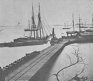 1865 photo of waterfront, City Point, Virginia (now Hopewell).